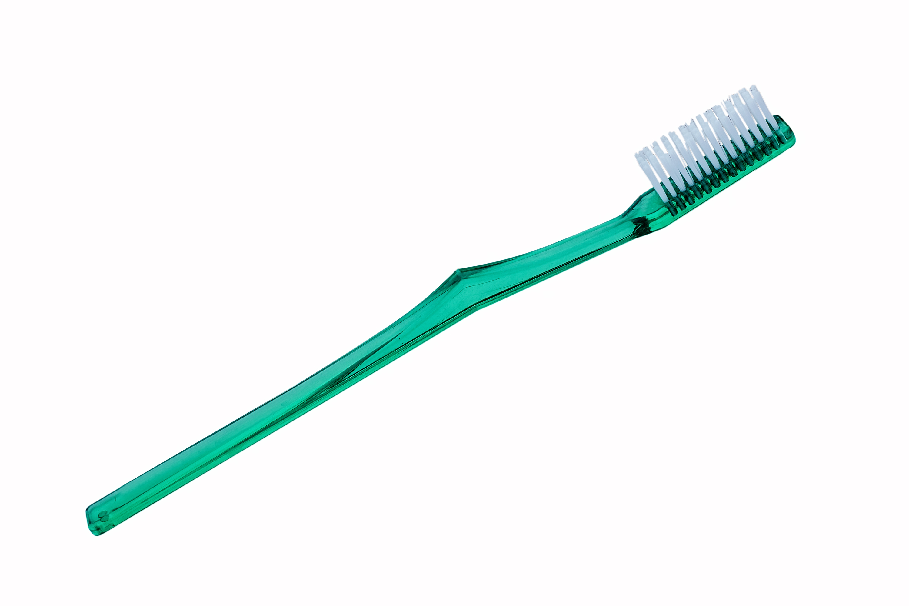 Toothbrush white background